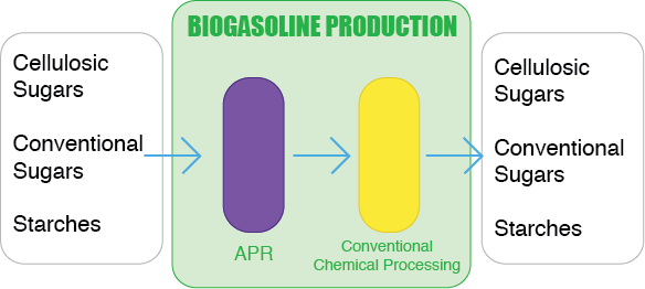 An image showing how biogasoline is produced.